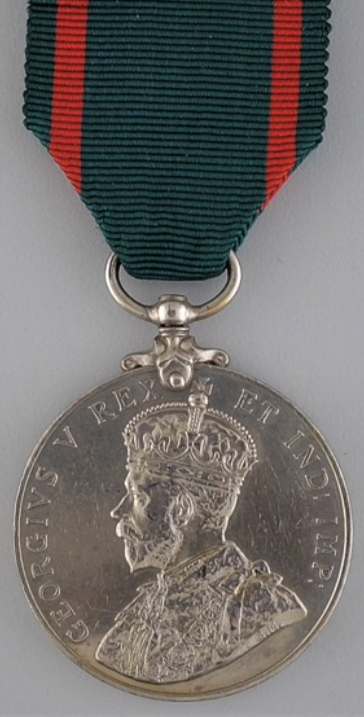 King George V's Visit to Ireland Medal, 1911, obverse. British commemorative medal.